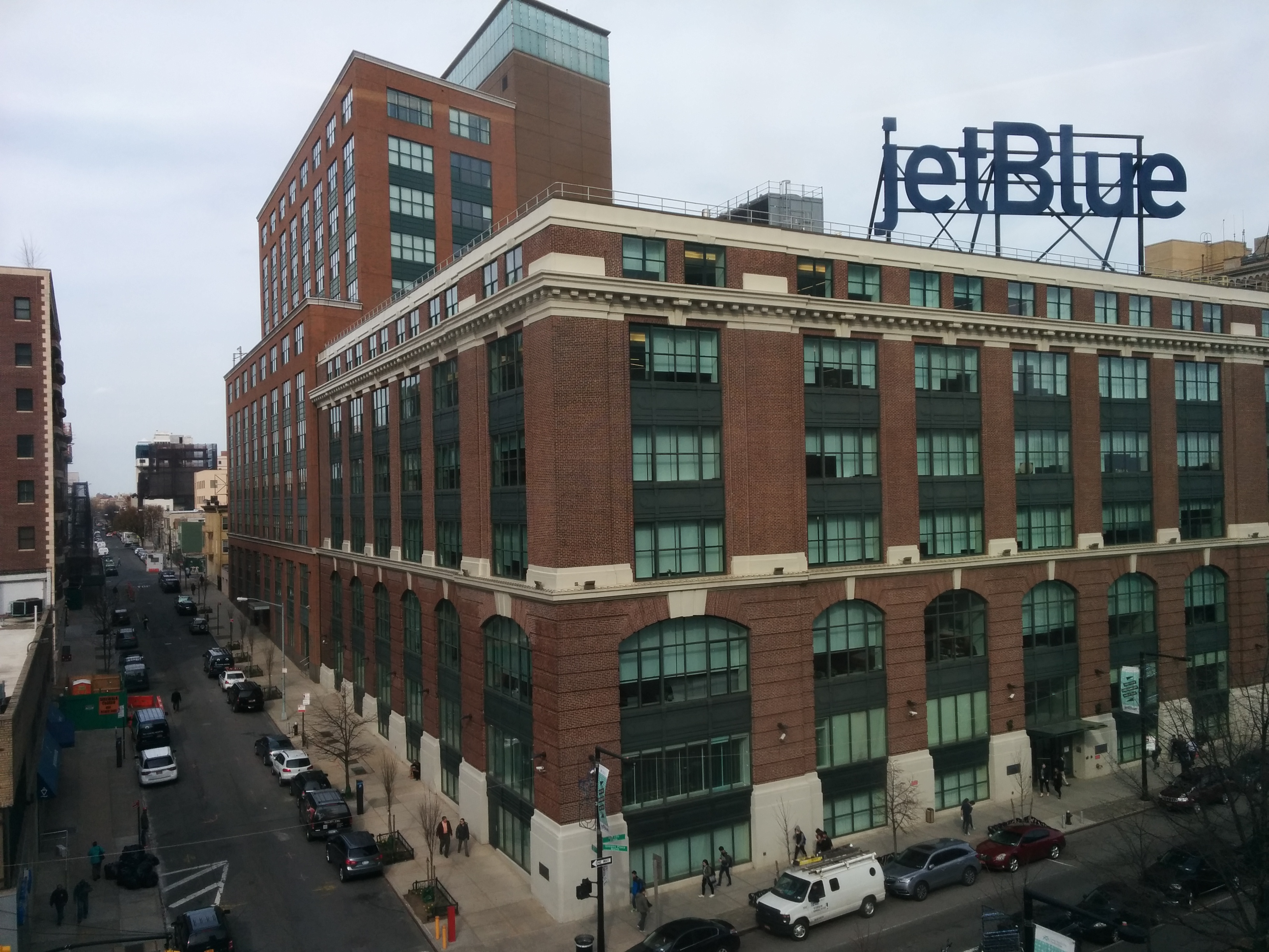 Brewster Building, JetBlue headquarters from the south, as well as some of 27th St north of Queens Plaza North.